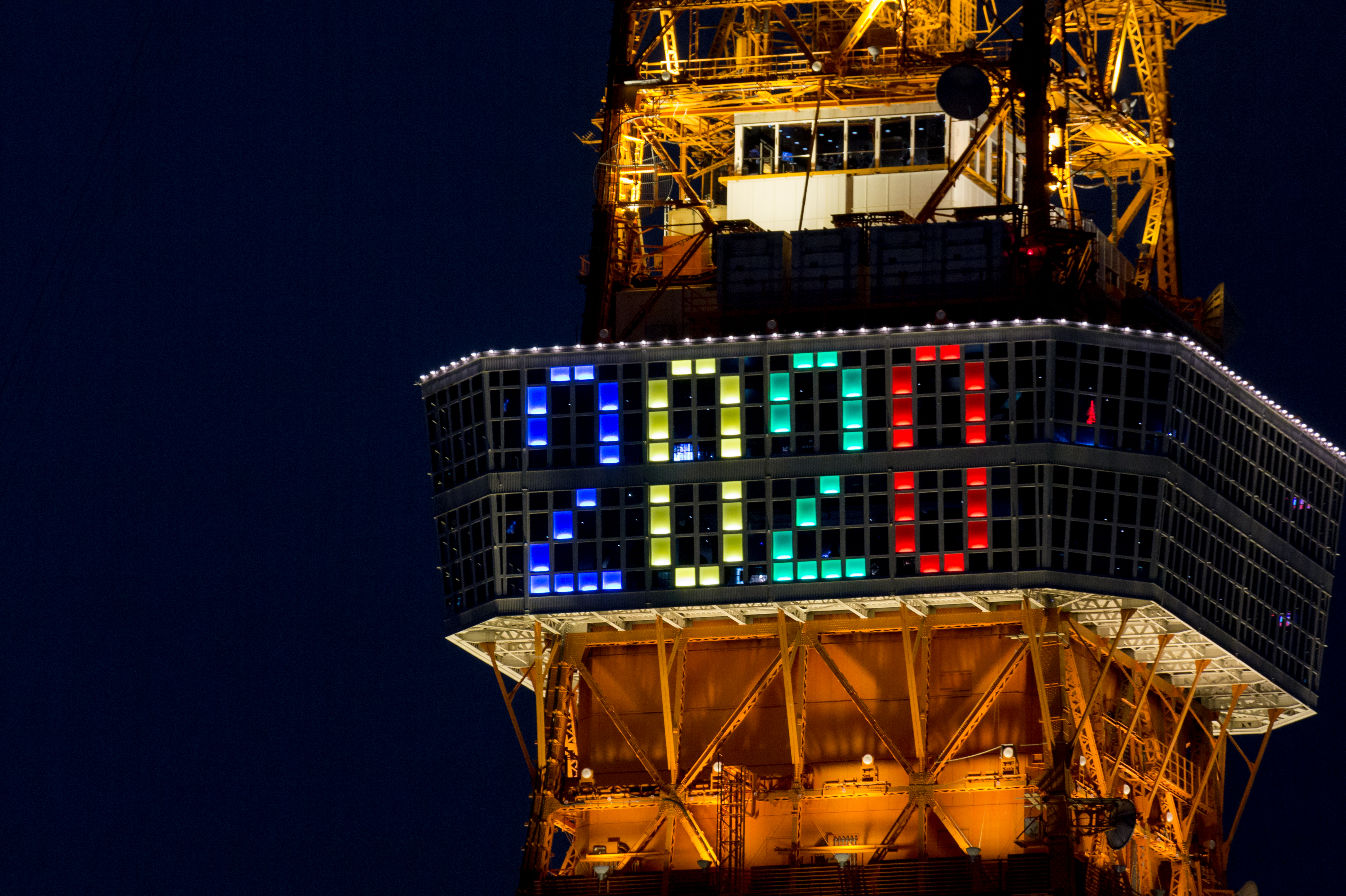 EOS 60D+TAMRON SP 70-300mm F/4-5.6 Di VC USD (Model A005) If you have requests or comments, please describe these in photo comment space. note